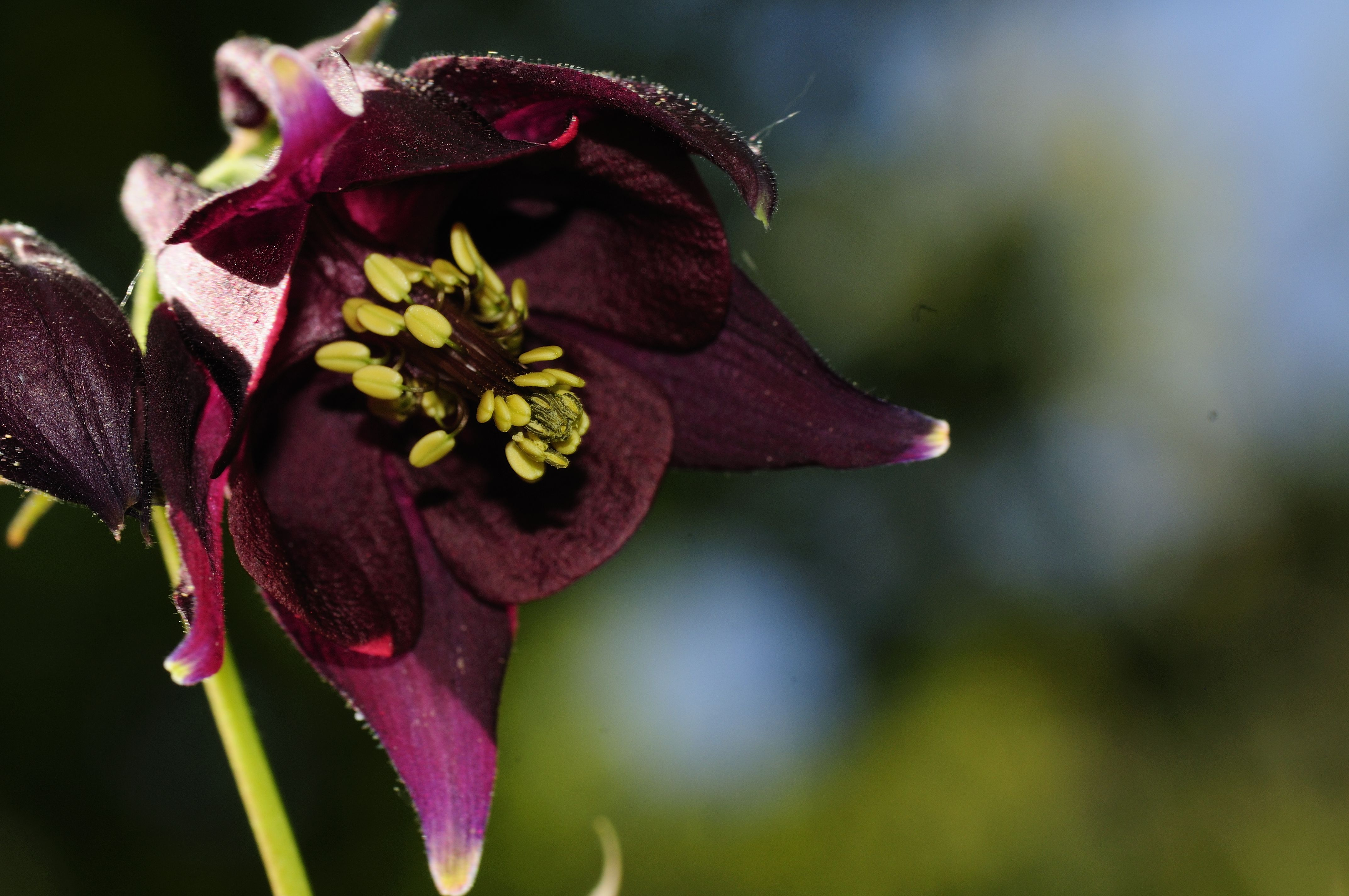 Please report references to .